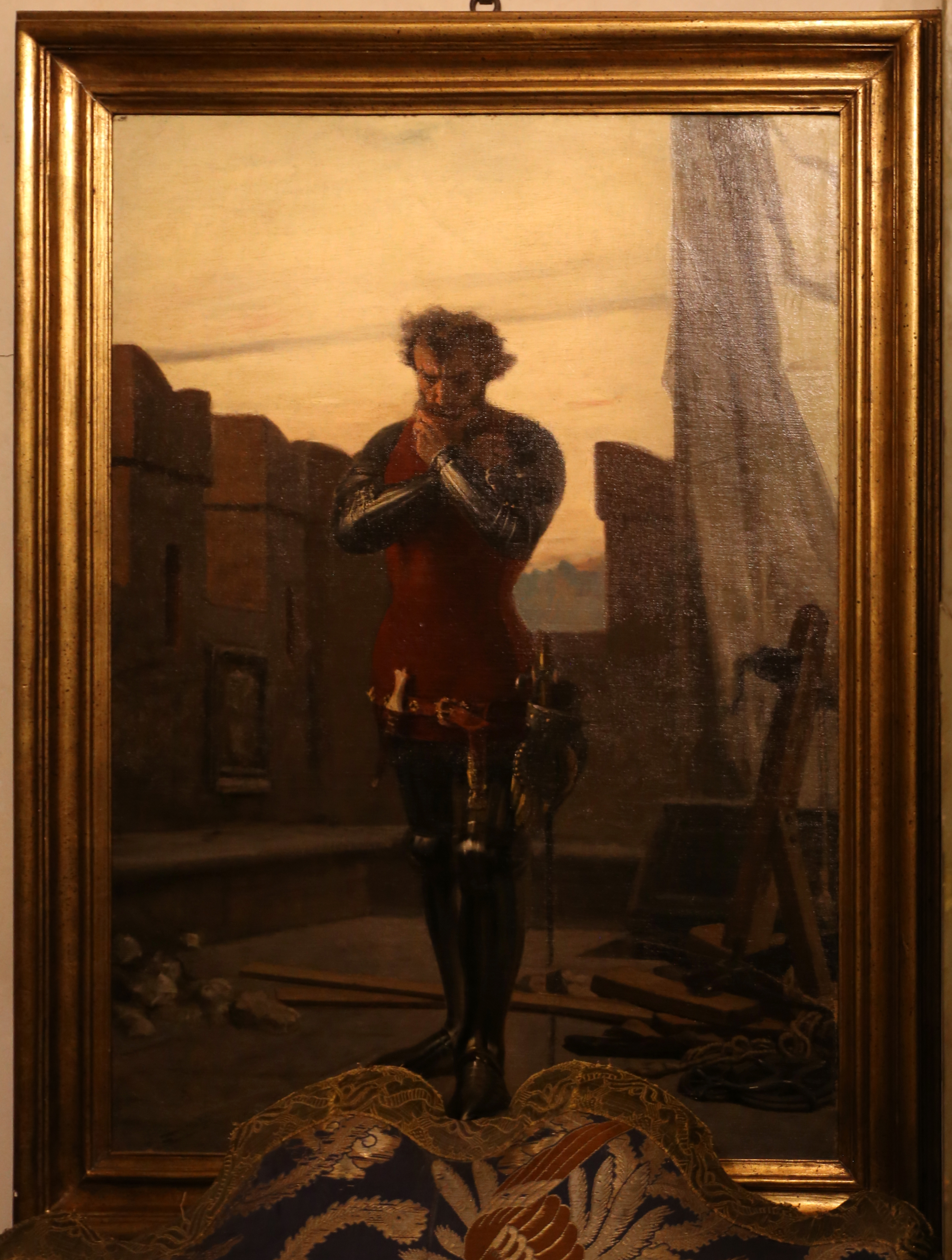 Collections of the Accademia delle Arti del Disegno (Florence)